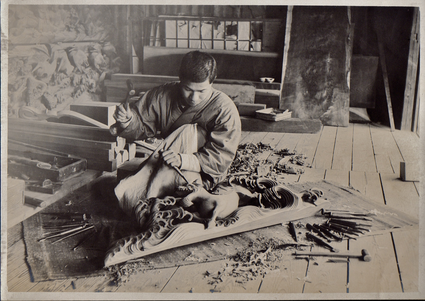 This is one of the most interesting photos I have come across in Elstner Hilton's album of photos he took in Japan. Here, the carver adds details to an animal figure (horse?) that's galloping through the clouds or, more plausibly, through waves. I'm impressed that this sculptor possessed the skills to use such a long and large chisel when the piece was as far along as this one was. One poorly-aimed chisel stroke could ruin the design!